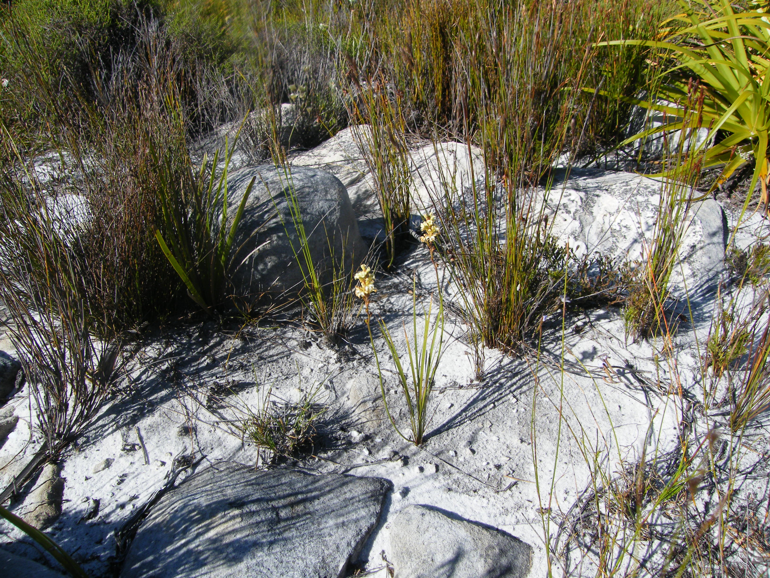 Tritoniopsis unguicularis, Silvermine Cape Town